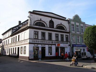 Market Square Puck, Poland